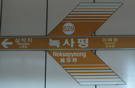 Noksapyeong Station